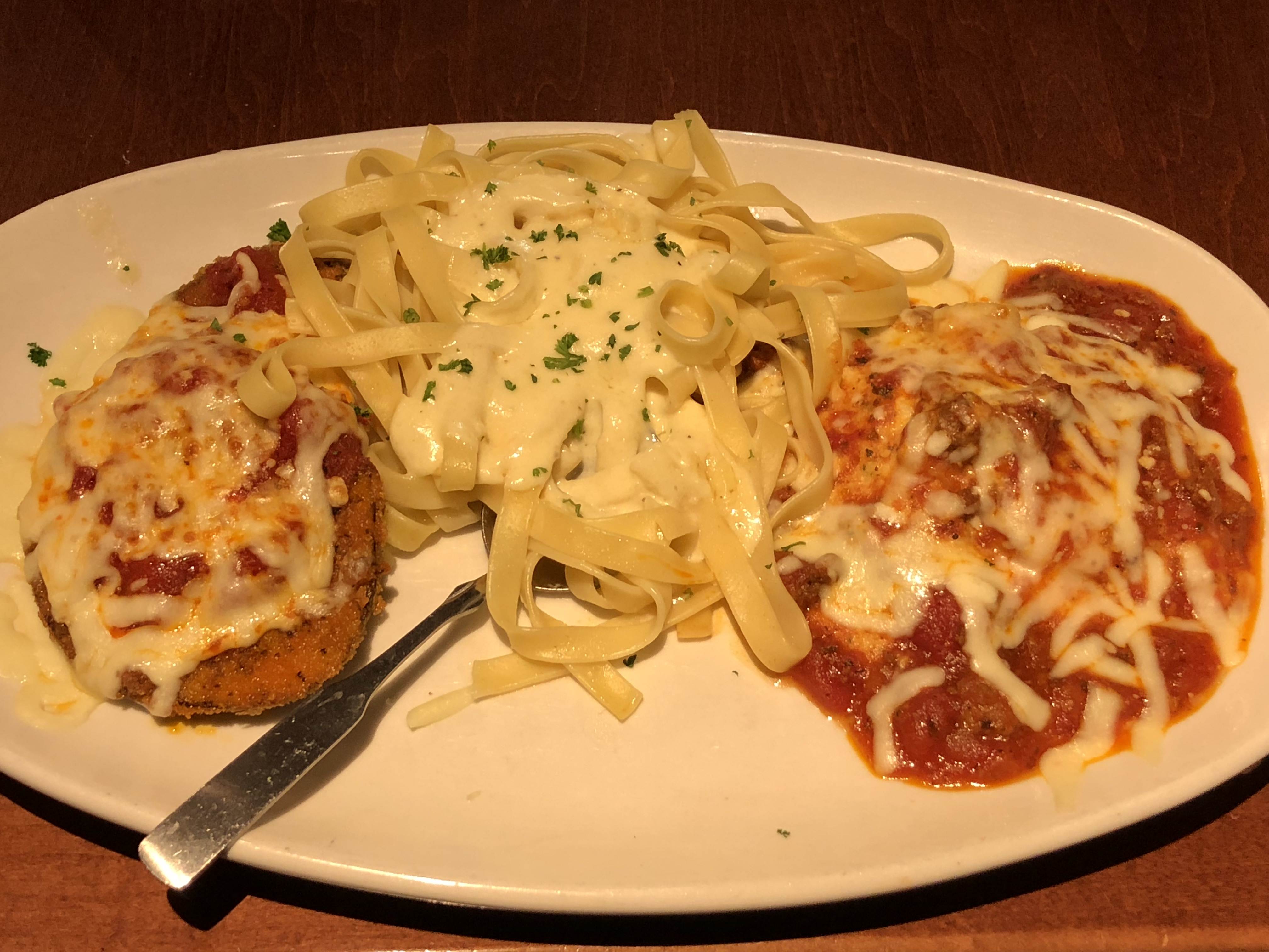 "Tour of Italy" (Lasagna Classico, Fettuccine Alfredo, and Eggplant Parmigiana (substituted for the usual Chicken Parmigiana)) at the Olive Garden in Fair Lakes, Fairfax County, Virginia